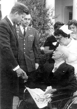 Former Major General Kilbourne with President Kennedy, at the White House.